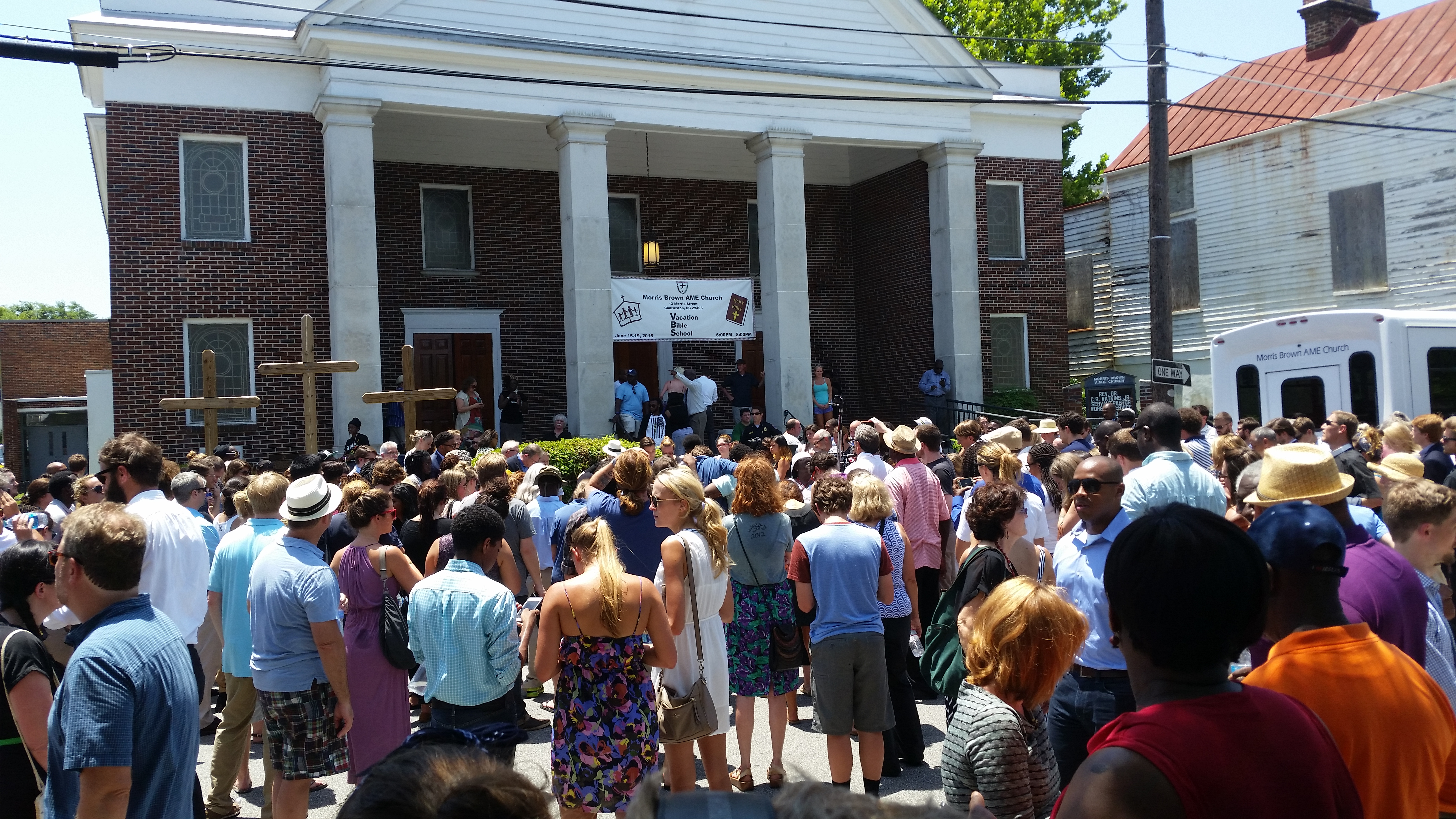 Picture I took from the crowd outside of the Charleston church shooting memorial service. As the church filled to capacity, people gathered outside, sung hymns, and listened to religious leaders talk.